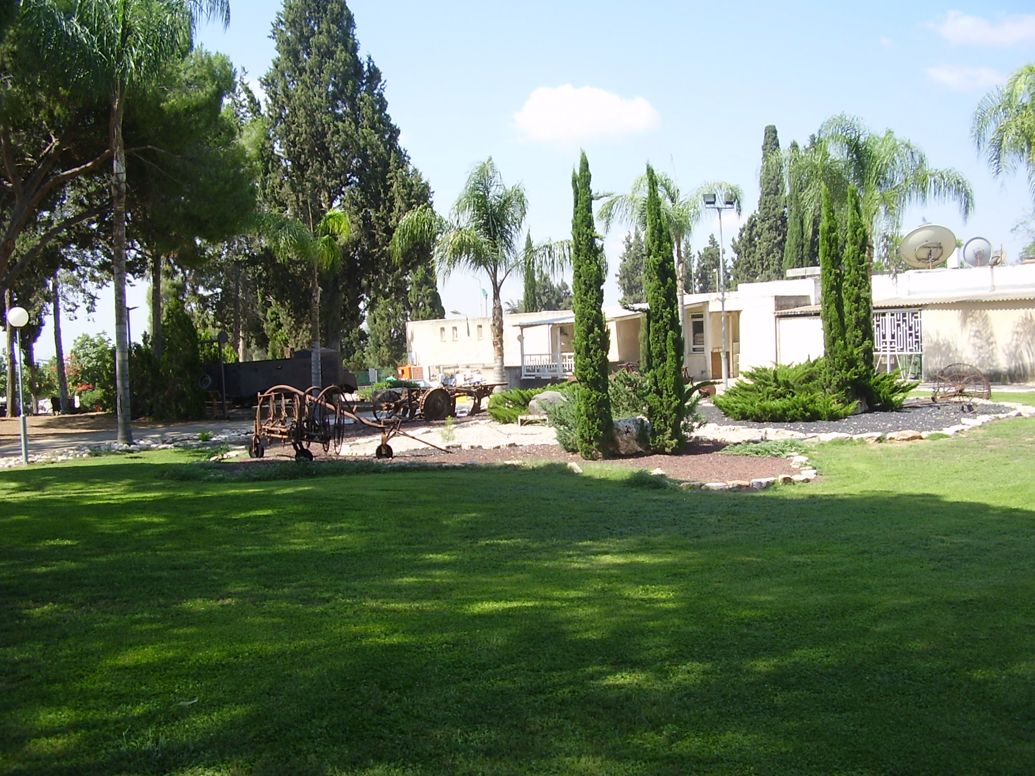 Large dining room in Kibbutz Hama\'apil